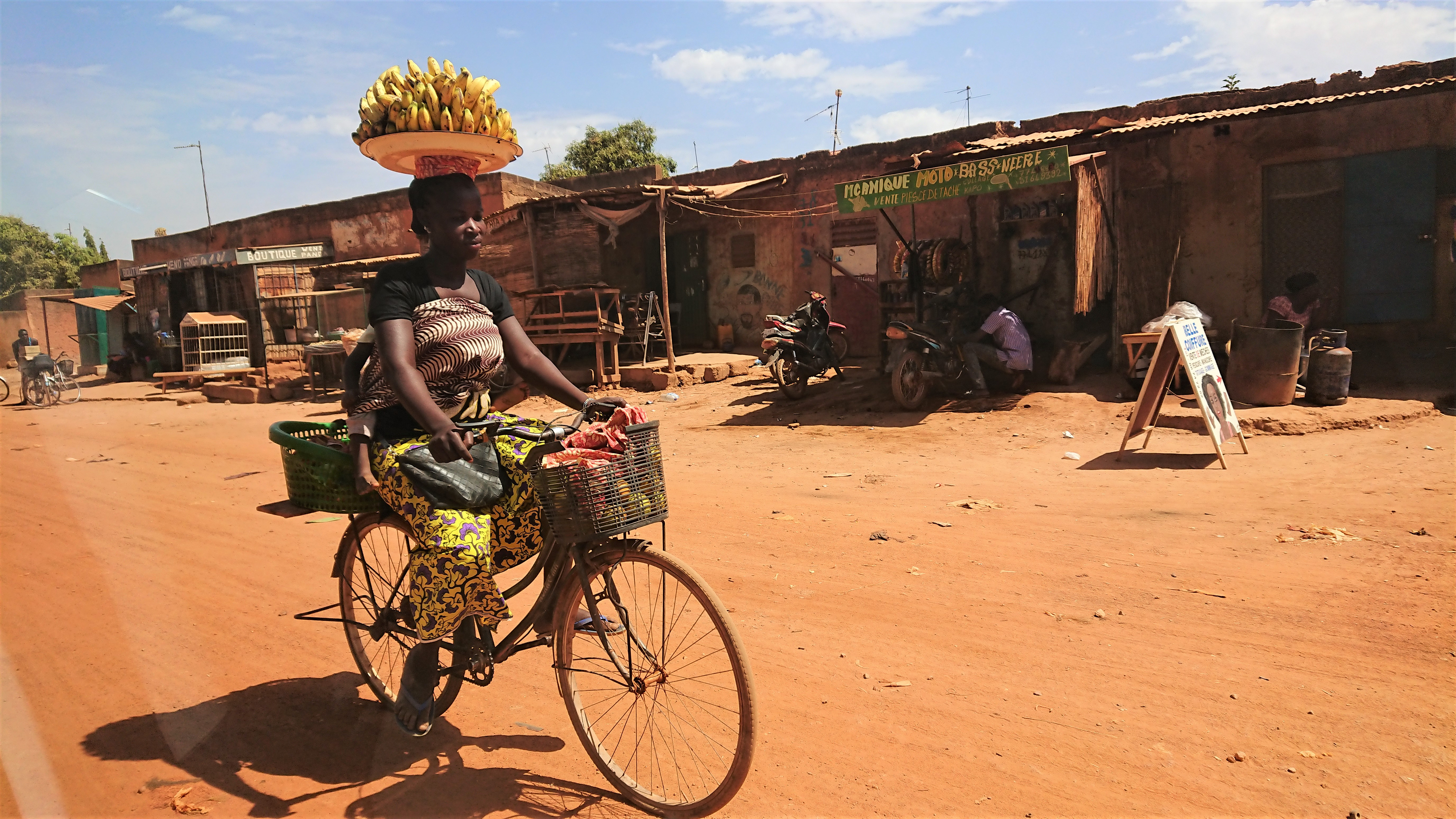 Cette femme est très belle, son attitude est noble et son magnifique port de tête est très efficace pour l'équilibre du plat de bananes This is an image with the theme "Africa on the Move or Transport" from: Burkina Faso